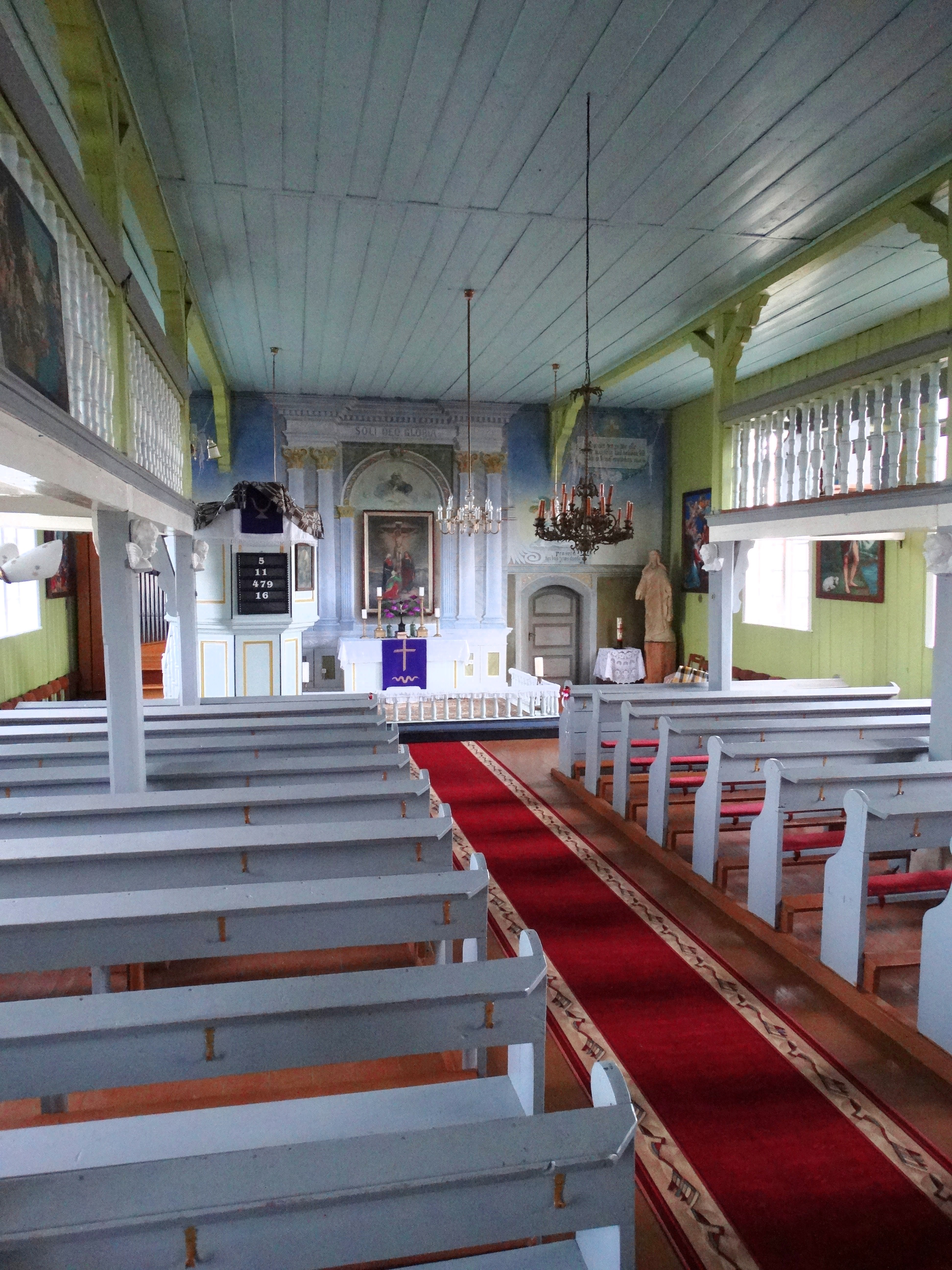 Evangelical-Lutheran Church, interior, Skirsnemunė, Jurbarkas district, Lithuania